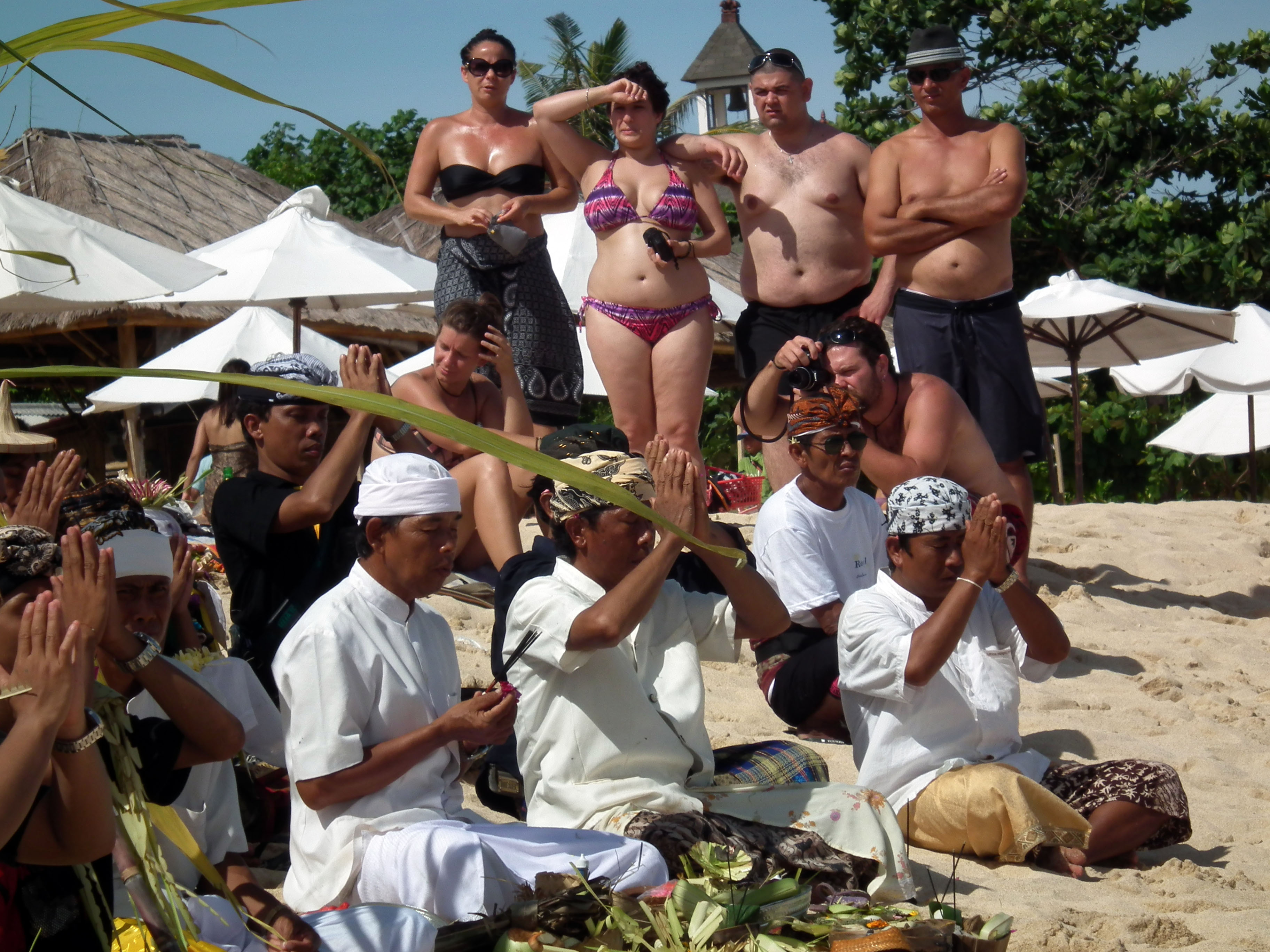 Religious ceremony on a beach on Bali, with tourists around.